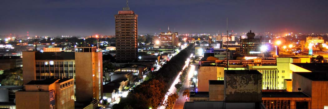 Lusaka, Zambia at Night